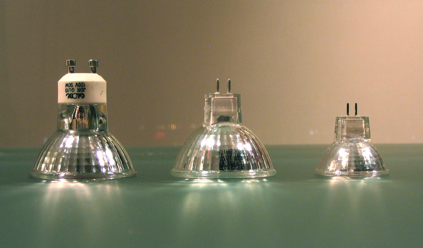 Pictures, from left to right: A 120 volt multifaceted reflector lamp with GU10 turn-and-lock base, a standard 12 volt MR16 lamp, and a standard 12 volt MR11 lamp.